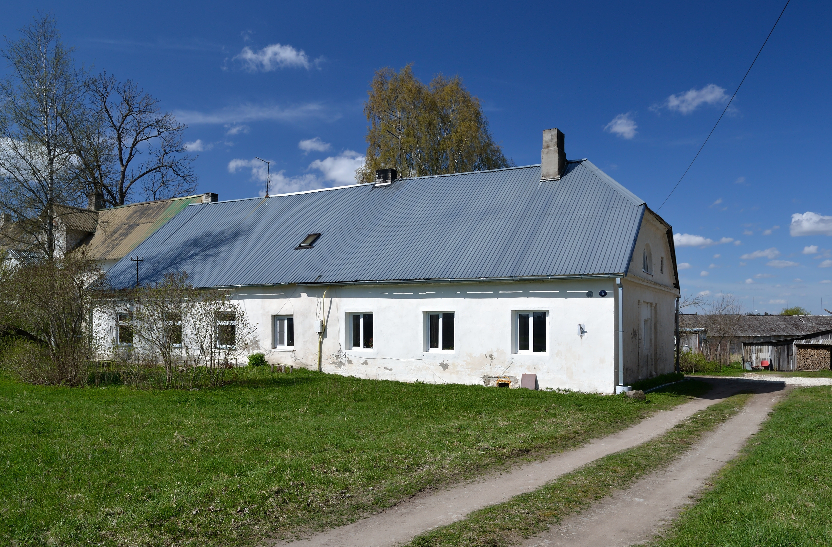 Mäo manor steward's house